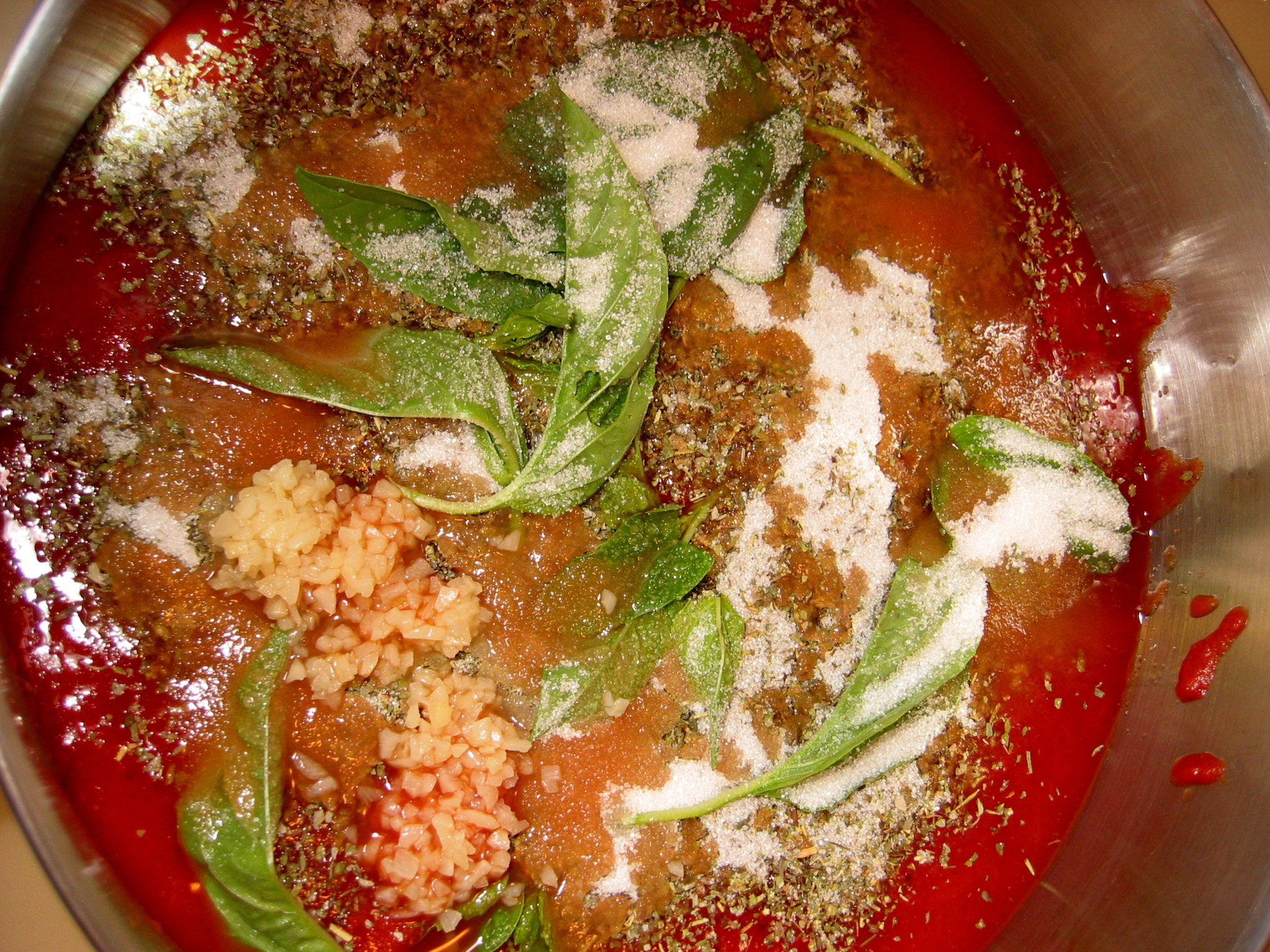 A recipe from Mary Ellen's and my friend, Gina and from her family. Ingredients and (intentionally) vague (sorry!) instructions in image notes.